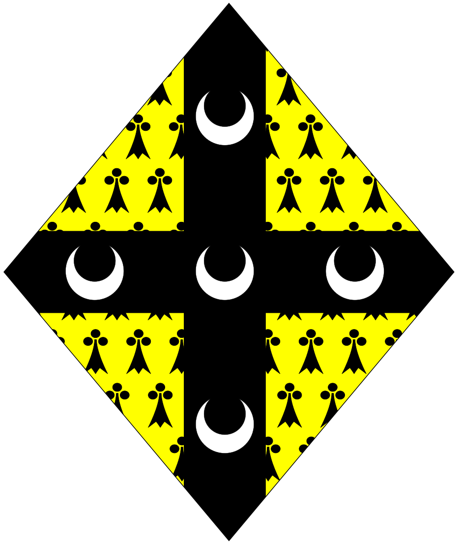 Arms of Ellis (Baron Howard de Walden): Erminois, a cross sable charged with five crescents argent (Montague-Smith, P.W. (ed.), Debrett's Peerage, Baronetage, Knightage and Companionage, Kelly's Directories Ltd, Kingston-upon-Thames, 1968, p.592) Borne here in a lozenge appropriate for a female armiger, for ) (Mary) Hazel (Caridwen) Czernin, 10th Baroness Howard de Walden (born 1935)